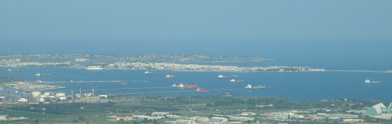 Augusta (SR), View from Melilli